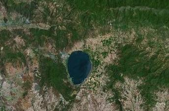 Satellite picture of Dojran Valley